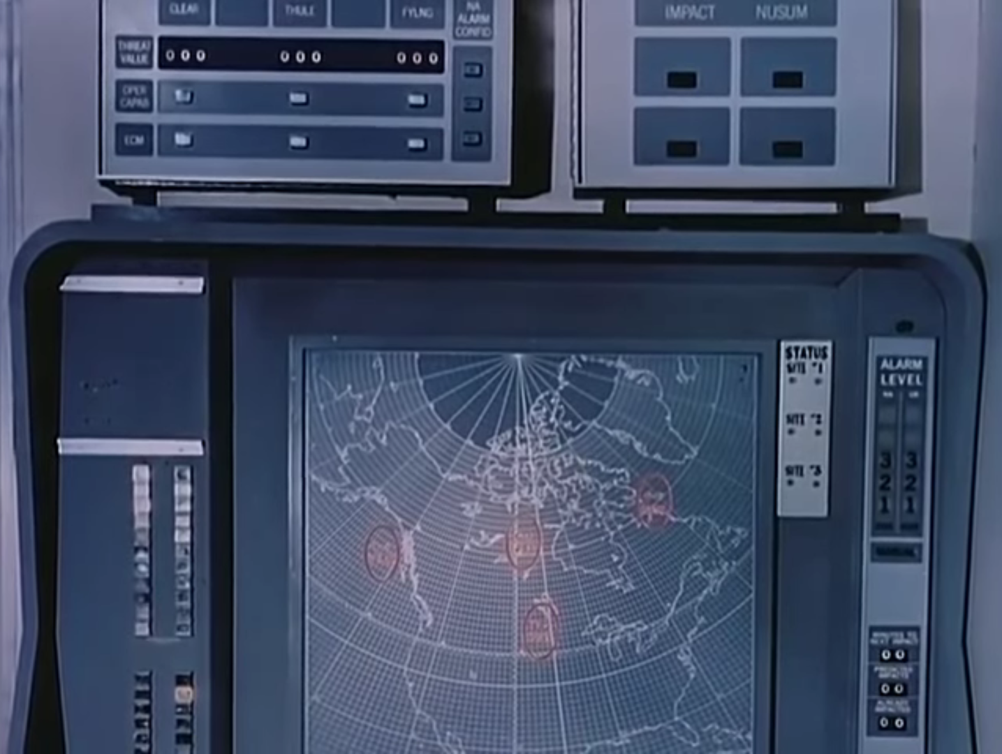 Iconorama display unit at Strategic Air Command HQ, Offut Air Force Base, in 1964. Stills from "Strategic Air Command: "SAC Command Post" 1964 United States Air Force"